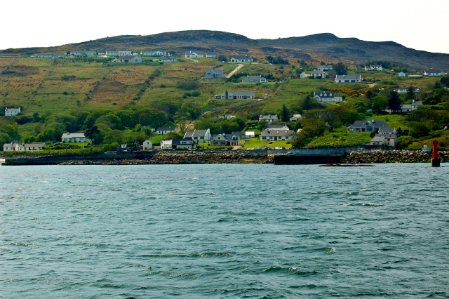 Arranmore Island - Approaching Leabgarrow This scene came into view after the ferry emerged from the channel and turned towards the west get to Leabgarrow Harbour.